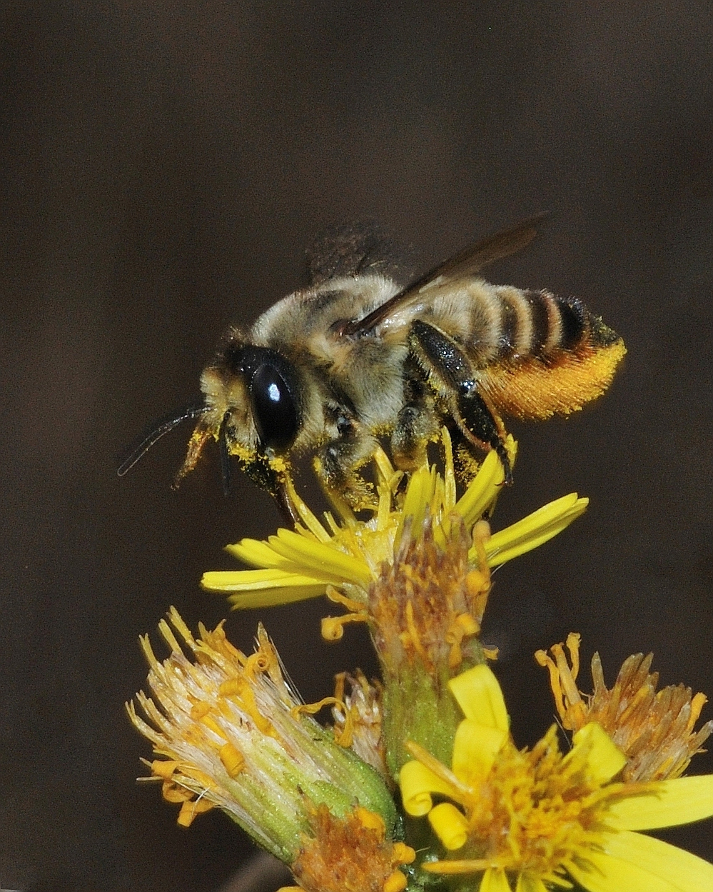 Megachile lagopoda (Linnaeus, 1761), female foraging on Dittrichia viscosa, Mount Carmel, Israel, October 22, 2009, 16:13. Det. Christophe Praz 2011.